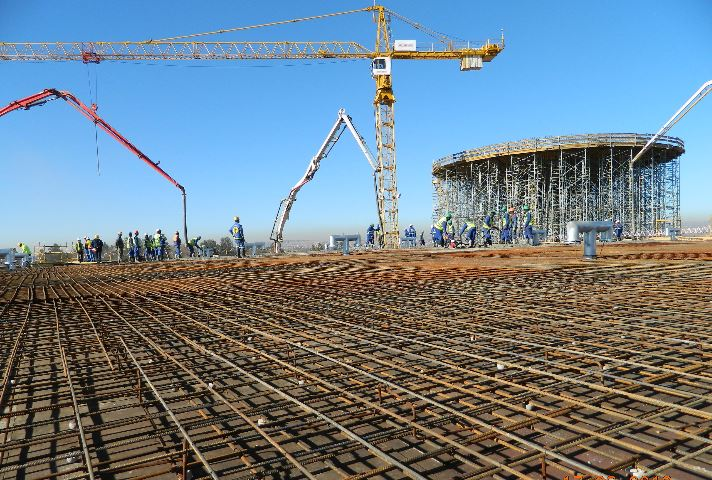 Construction of Lanseria Reservoir 2012